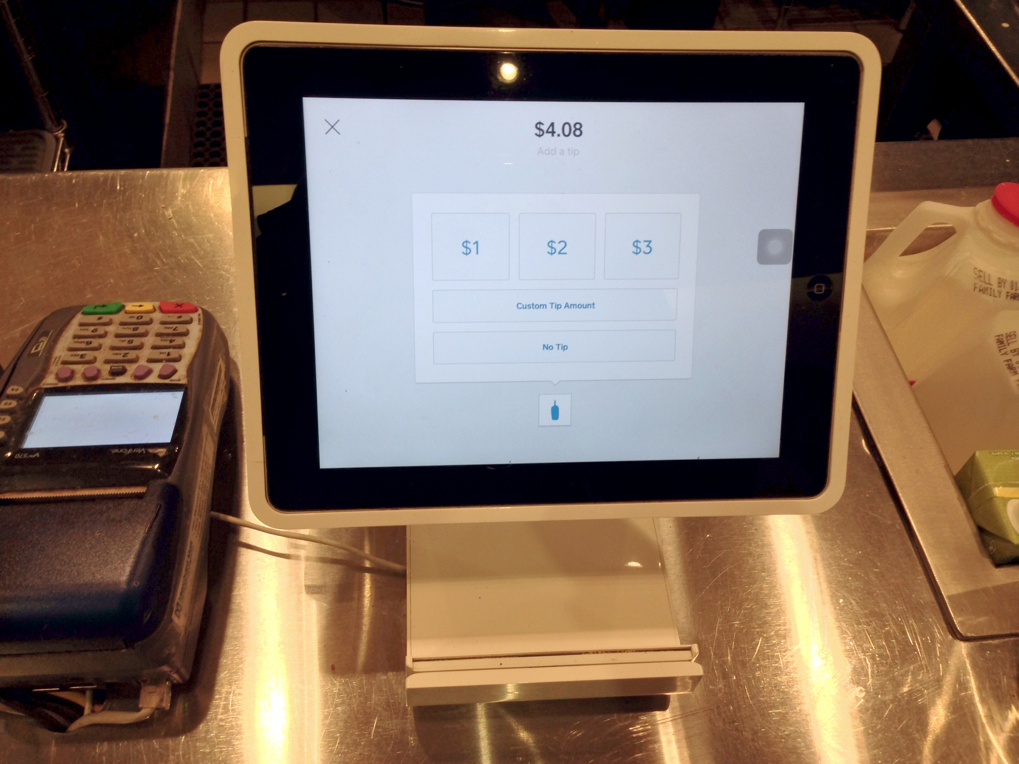 Square Stand at a coffee shop tuning an iPad into a point-of-sale system. Credit card reader is at the bottom of the stand.